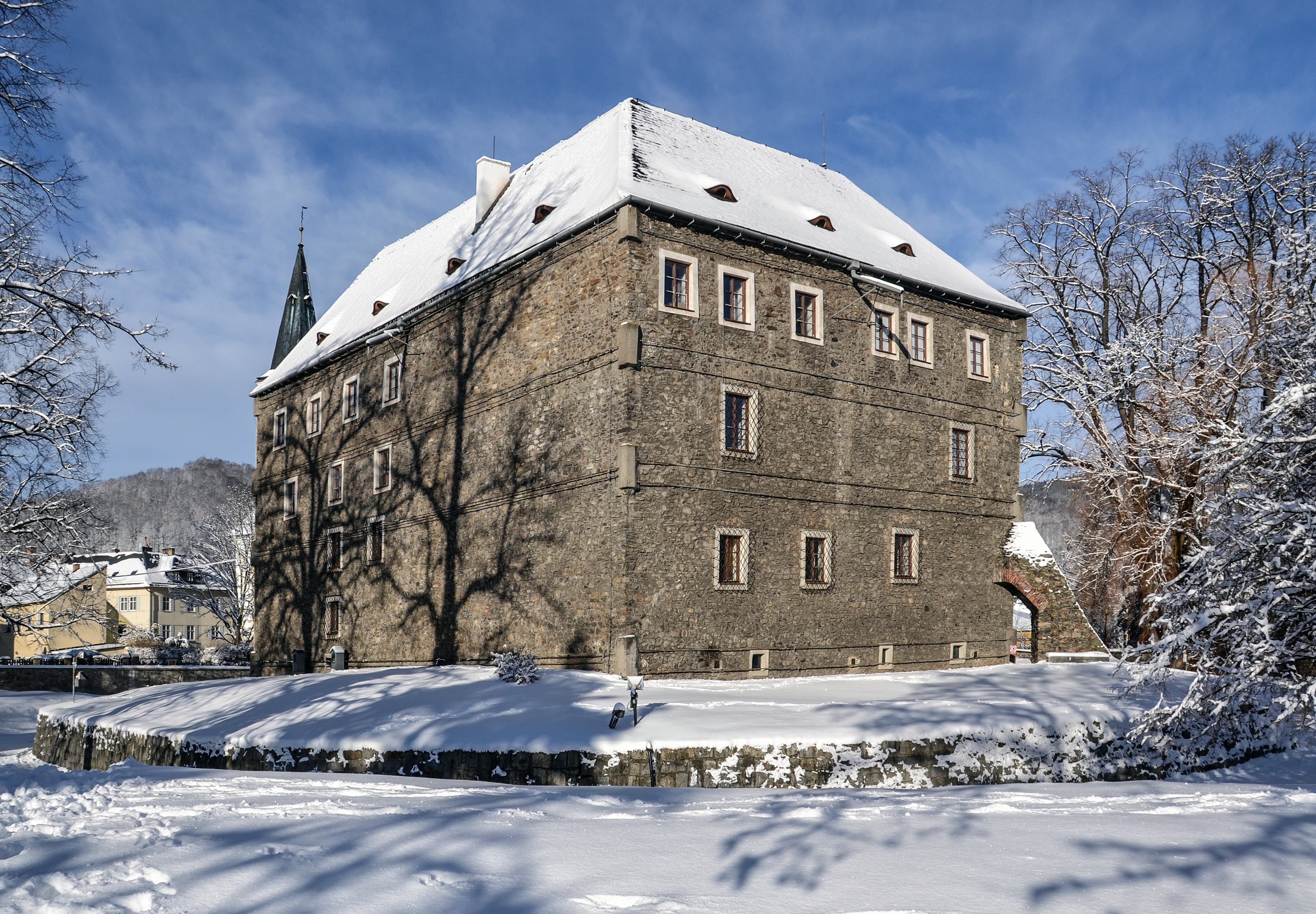 Water fortress in Jeseník (Freiwaldau), Czech Silesia